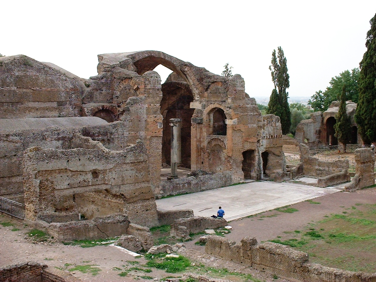 Great Thermae of the Villa Adriana, near Tivoli. The frigidarium stands in the central part.